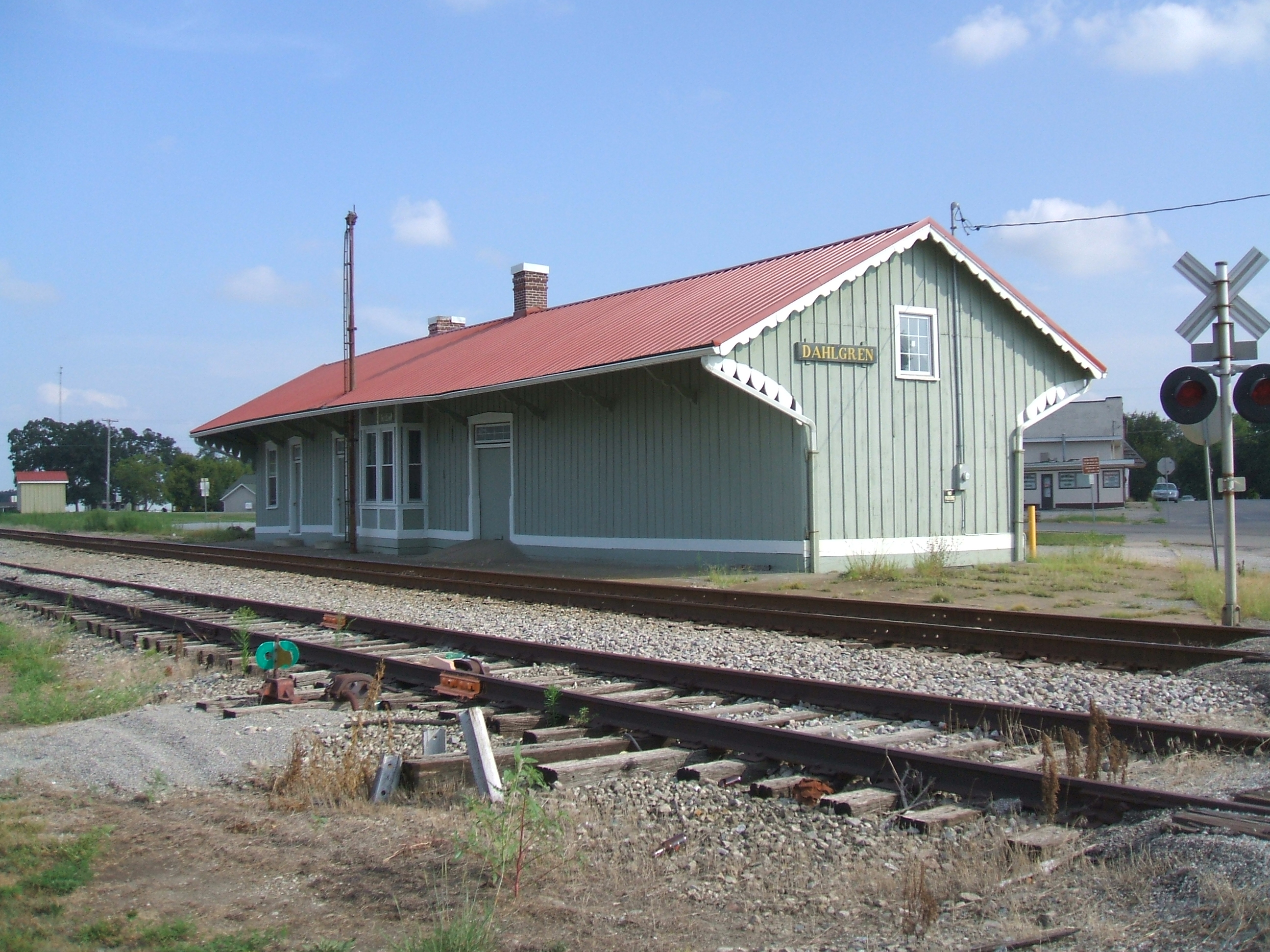 Digital photograph of railroad depot, Dahlgren, IL taken by myself, August 2006.